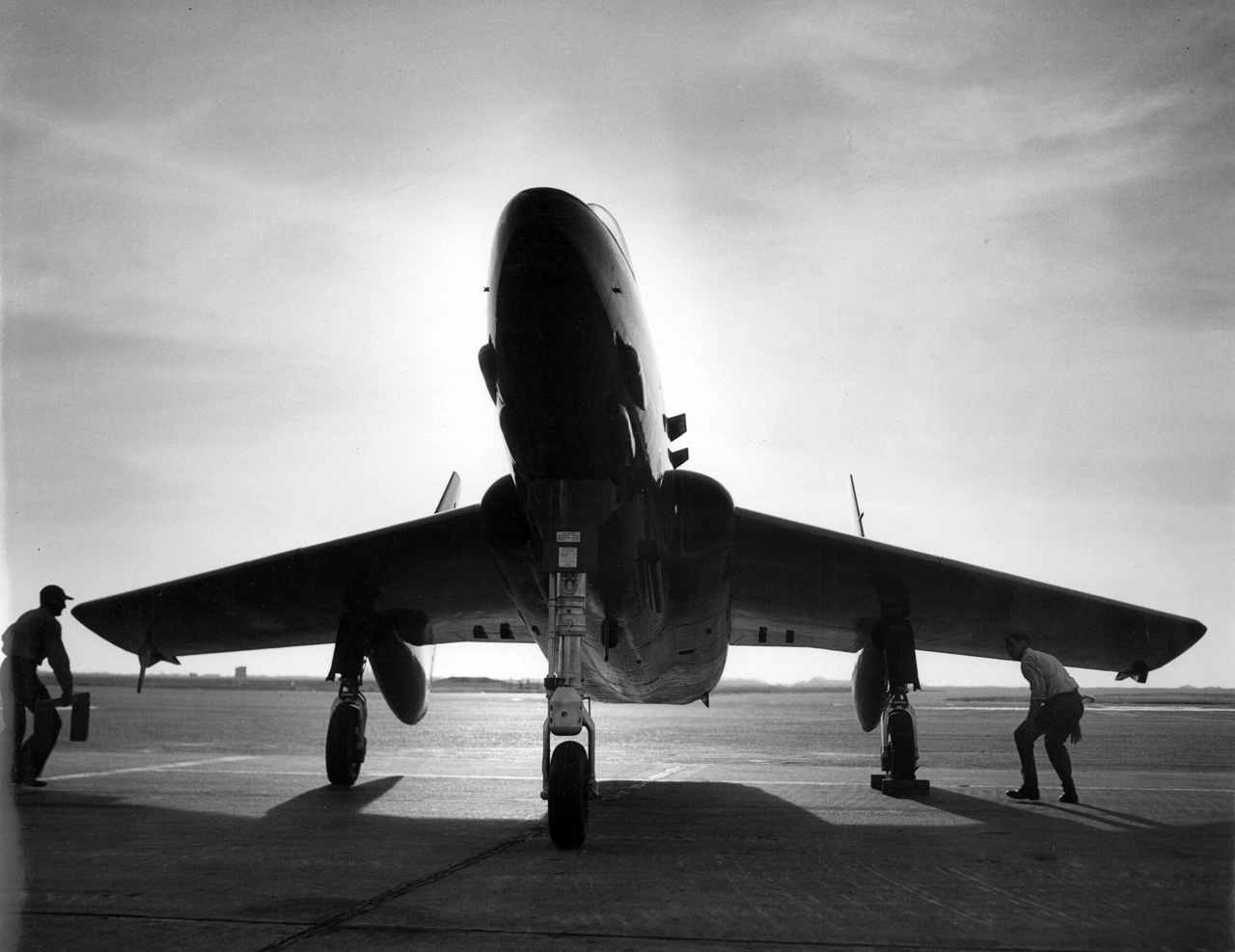 A Vought F7U-1 Cutlass used by the United States Navy's "Blue Angels" flight demonstration team. Only the F7U-1s BuNo 124426 and 124427 were flown by the Blue Angels.